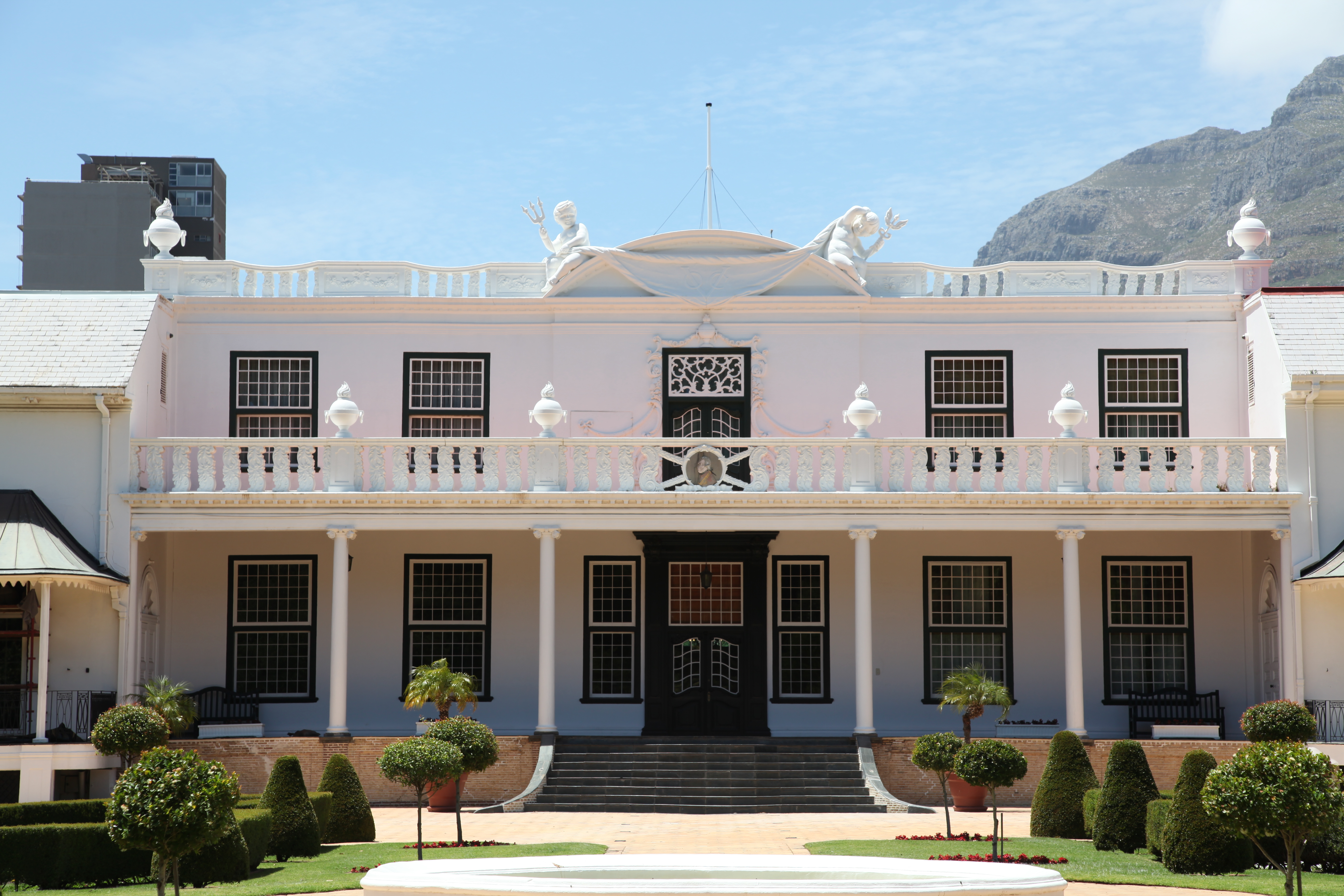 De Tuynhuys, the Cape Town office of the Presidency of the Republic of South Africa, originated in 1682.